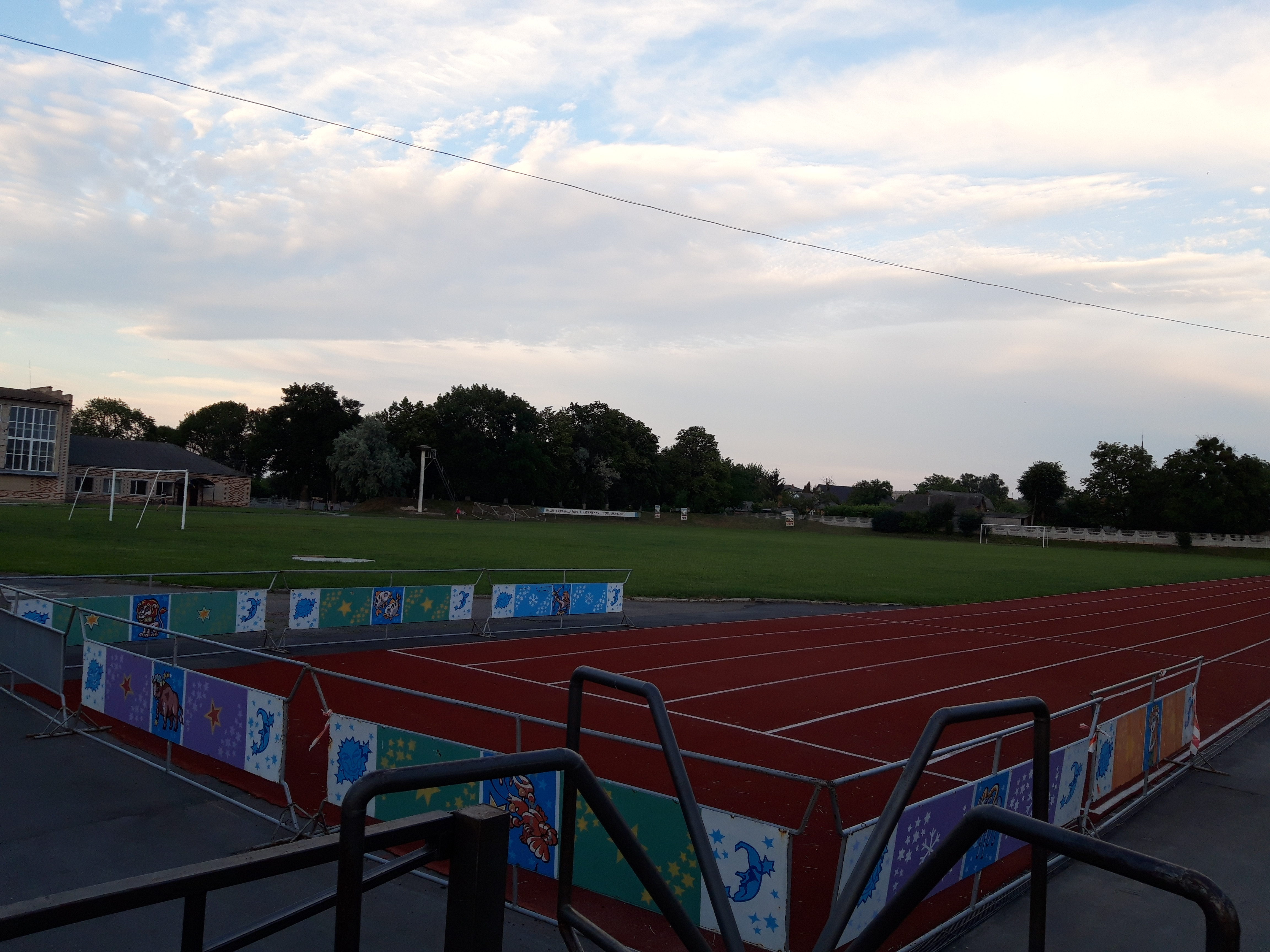 Stadium Kolos in Illintsi July 2020